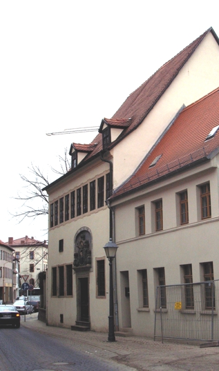 Memorial-building for Martin Luther in Eisleben. By mistake called "Luther's house of birth." The original, a much smaller building at the same location, was destroyed by a great fire in 1689 AD. This representativ building was build 1693 AD in memory of Martin Luther by the town's government. It is one of the earliest museum-buildings in Germany.